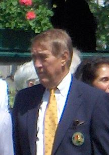 Photograph of Donald dell, taken at the International Tennis Hall of Fame, on the day he was inducted into the Hall of Fame